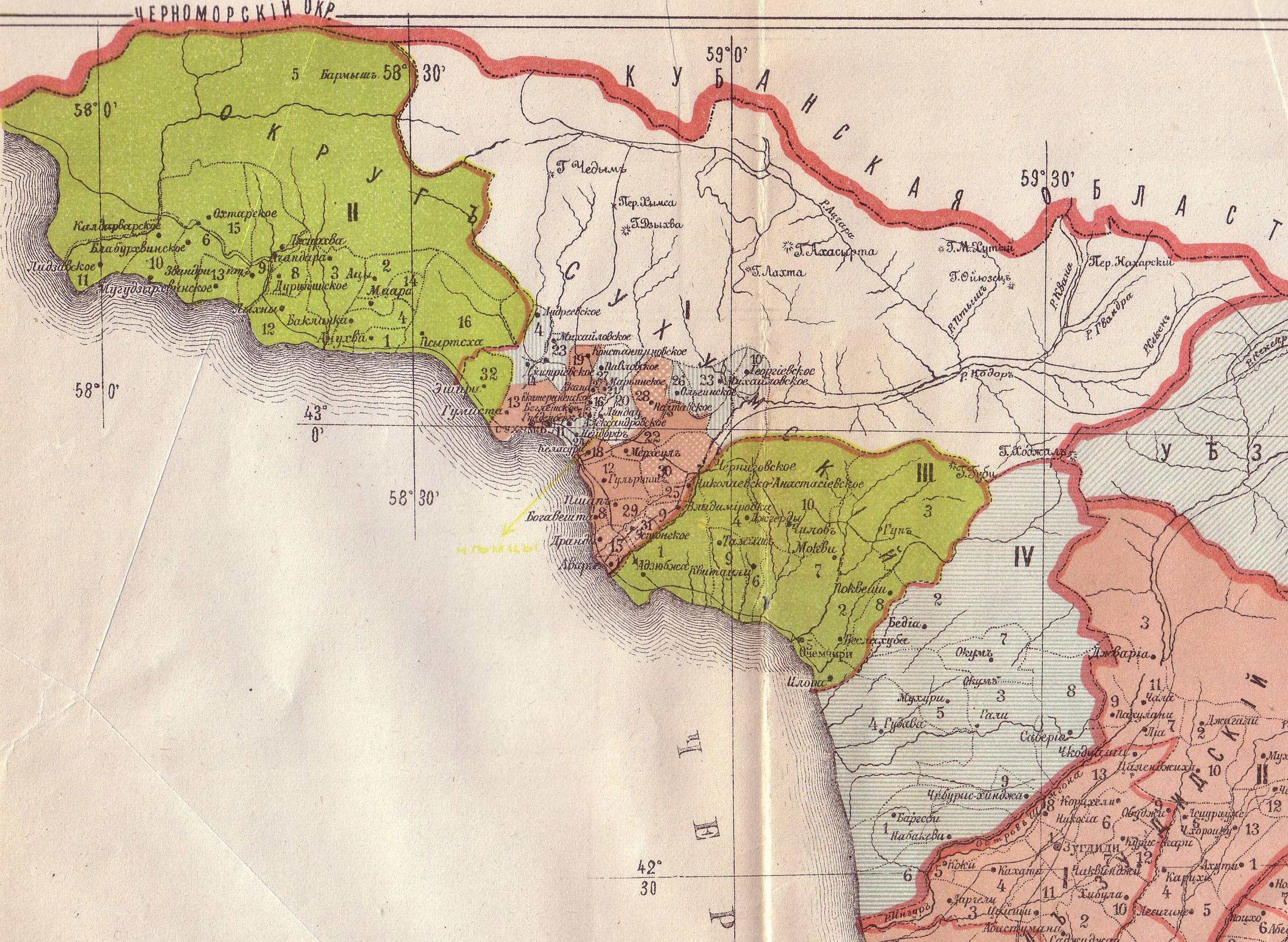 Ethnographic map of the Kutais Governorate